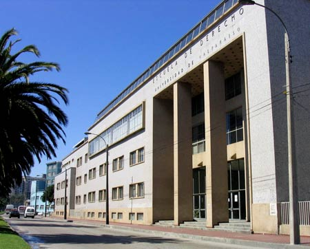 Universidad de Valparaíso´ Law School